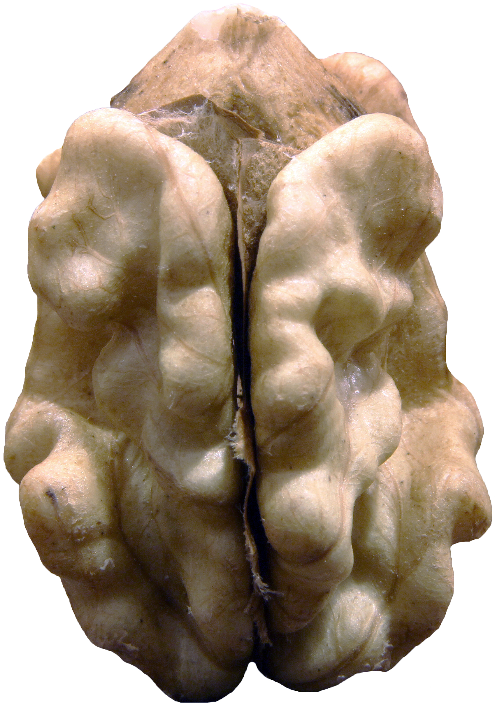 Close-up of a walnut